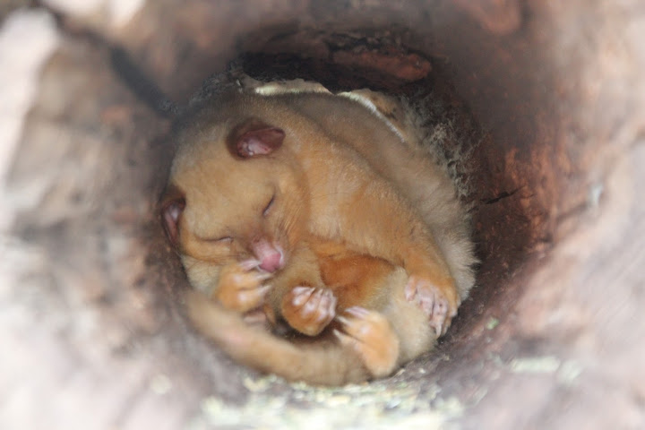 Taken October 3, 2015 at the Tasmania Zoo